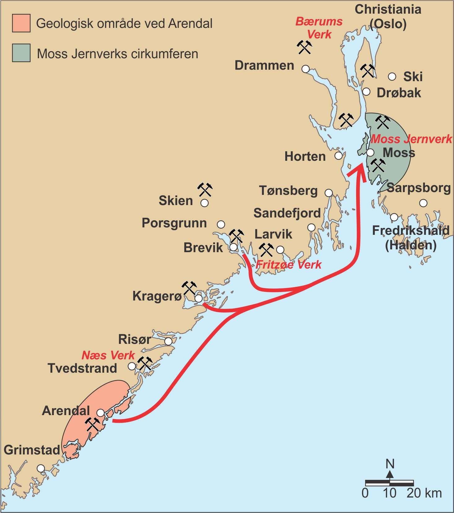 Old iron mill resources around Oslofjorden in Norway who delivered to Moss Jernverk